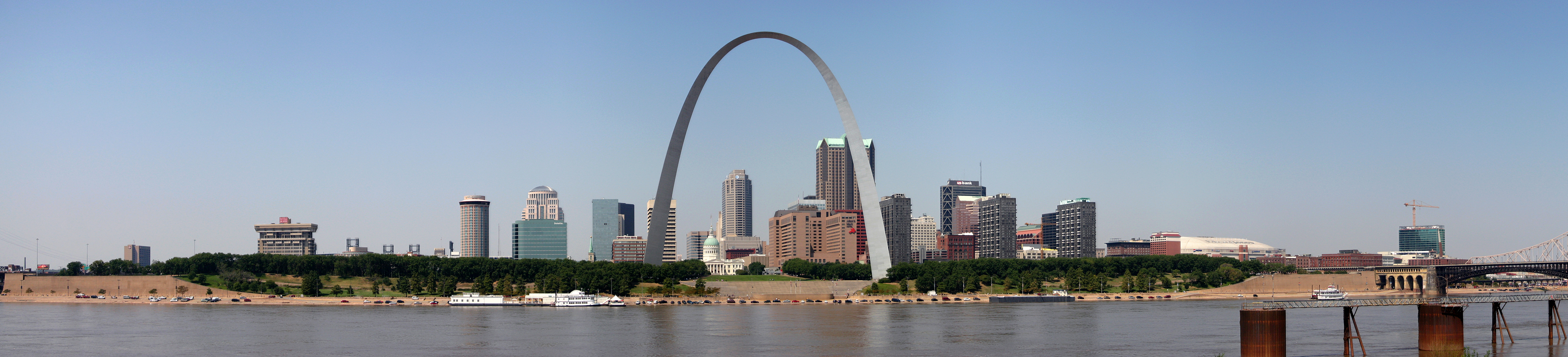 Panorama of St. Louis, Missouri, United States